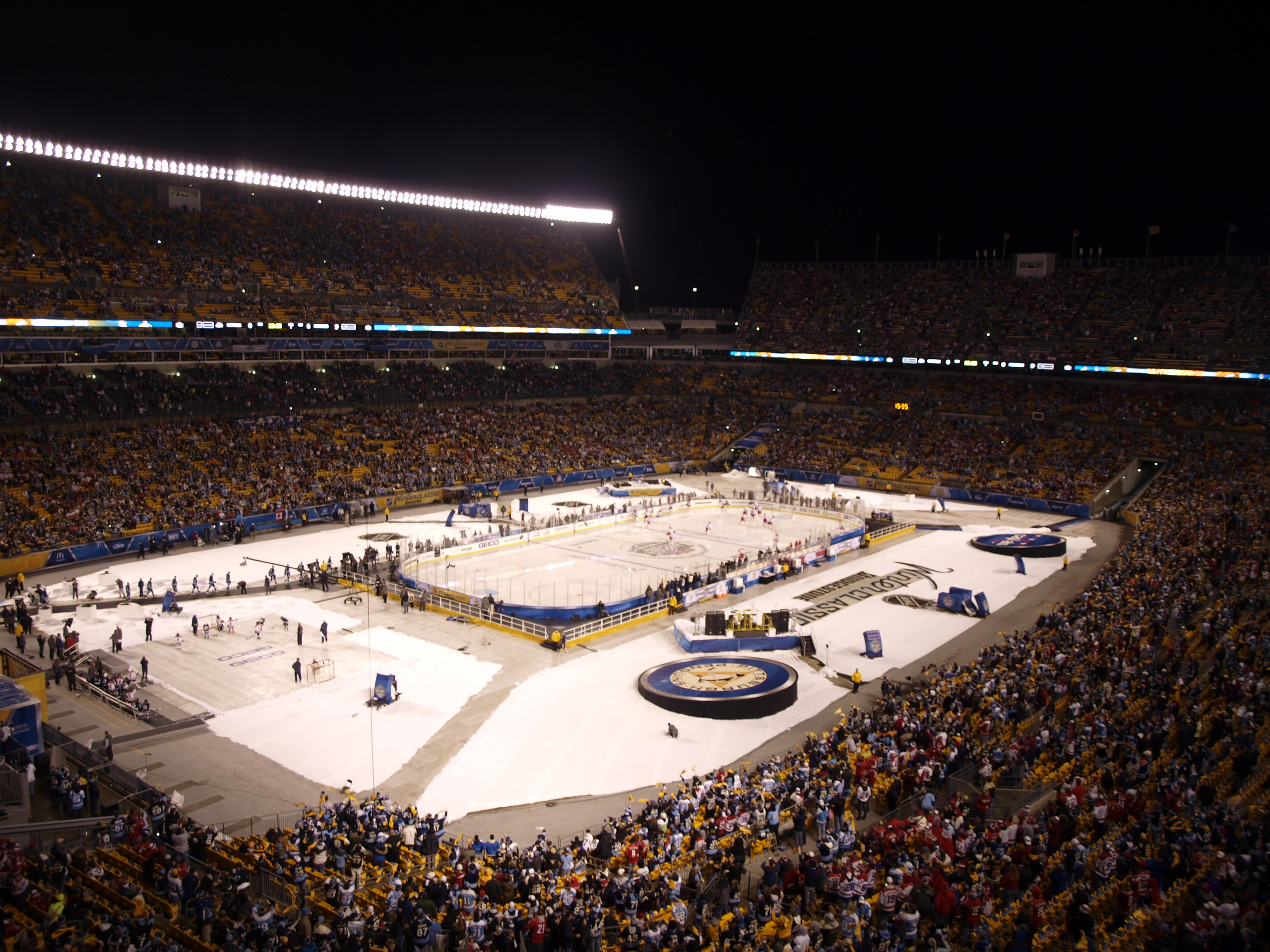 The Pittsburgh Penguins and Washington Capitals take the ice before the 2011 NHL Winter Classic in Pittsburgh, PA at Heinz Field